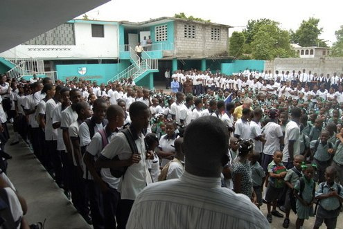 2010-10 Haiti 4 Duns Morning Assembly at St. Andre’s Episcopal School in Hinche